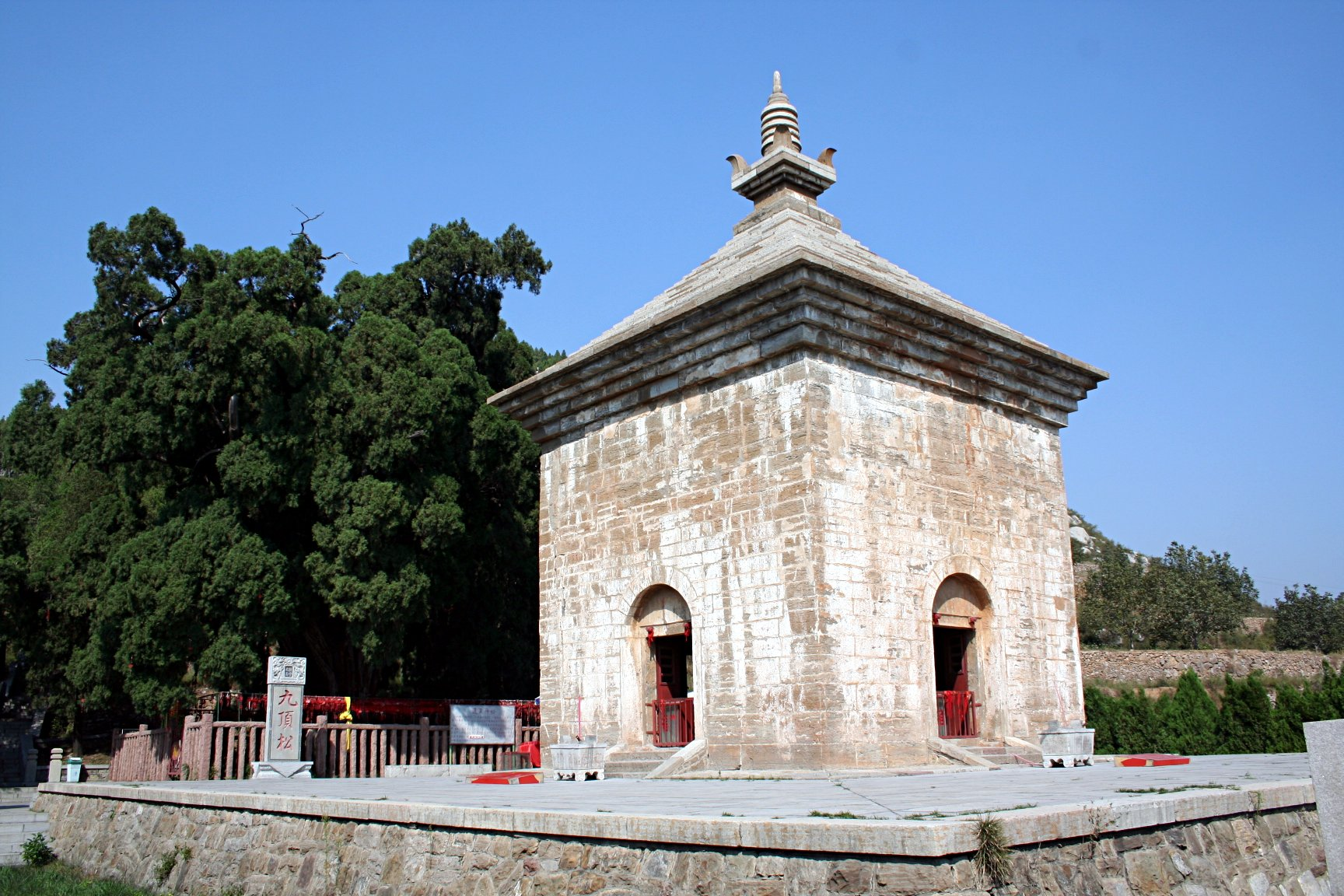 Photograph of Four-Gates Pagoda in Shandong Province, China by Rolf Müller